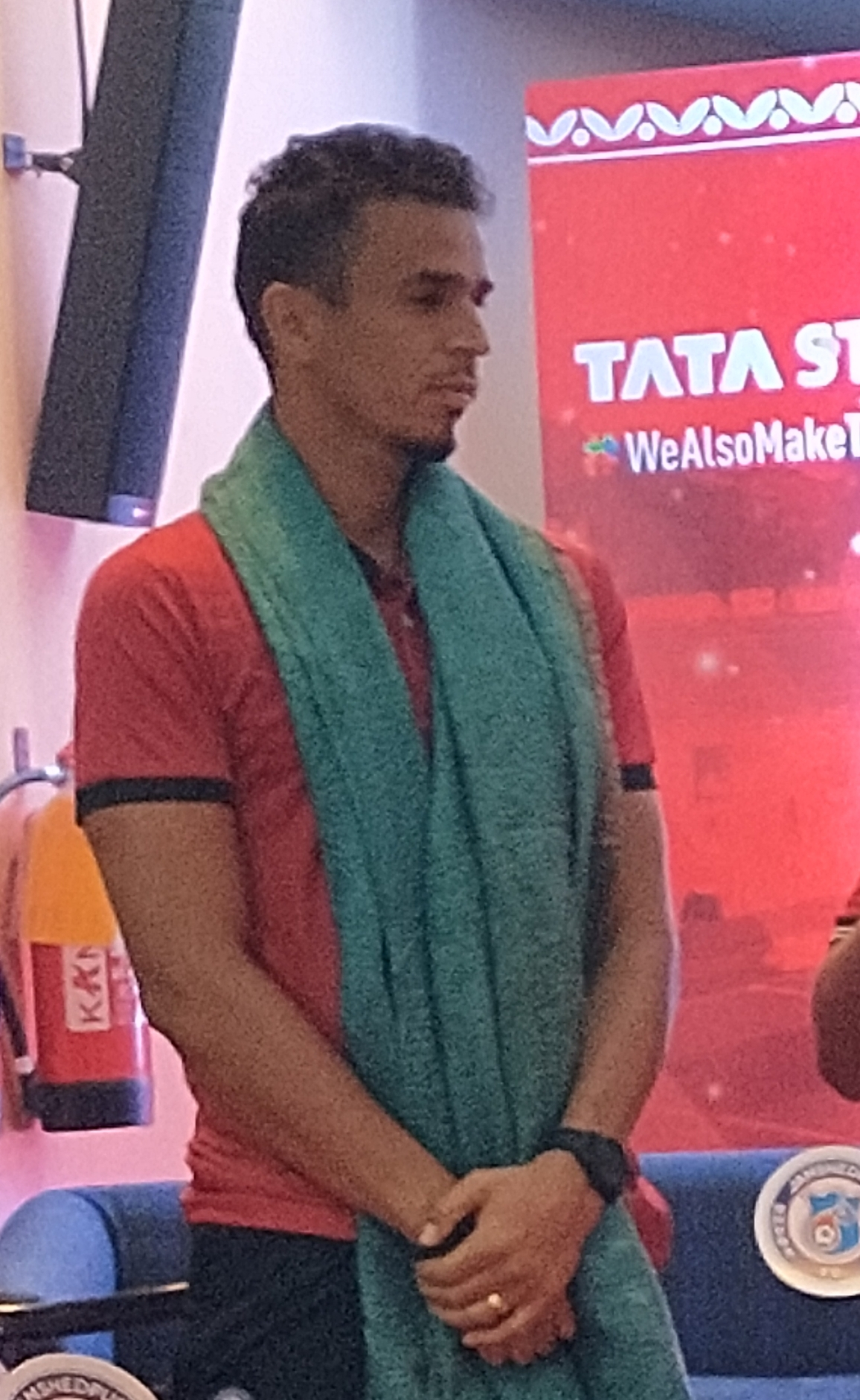 This file has been extracted from another file: Memo Moura.jpg